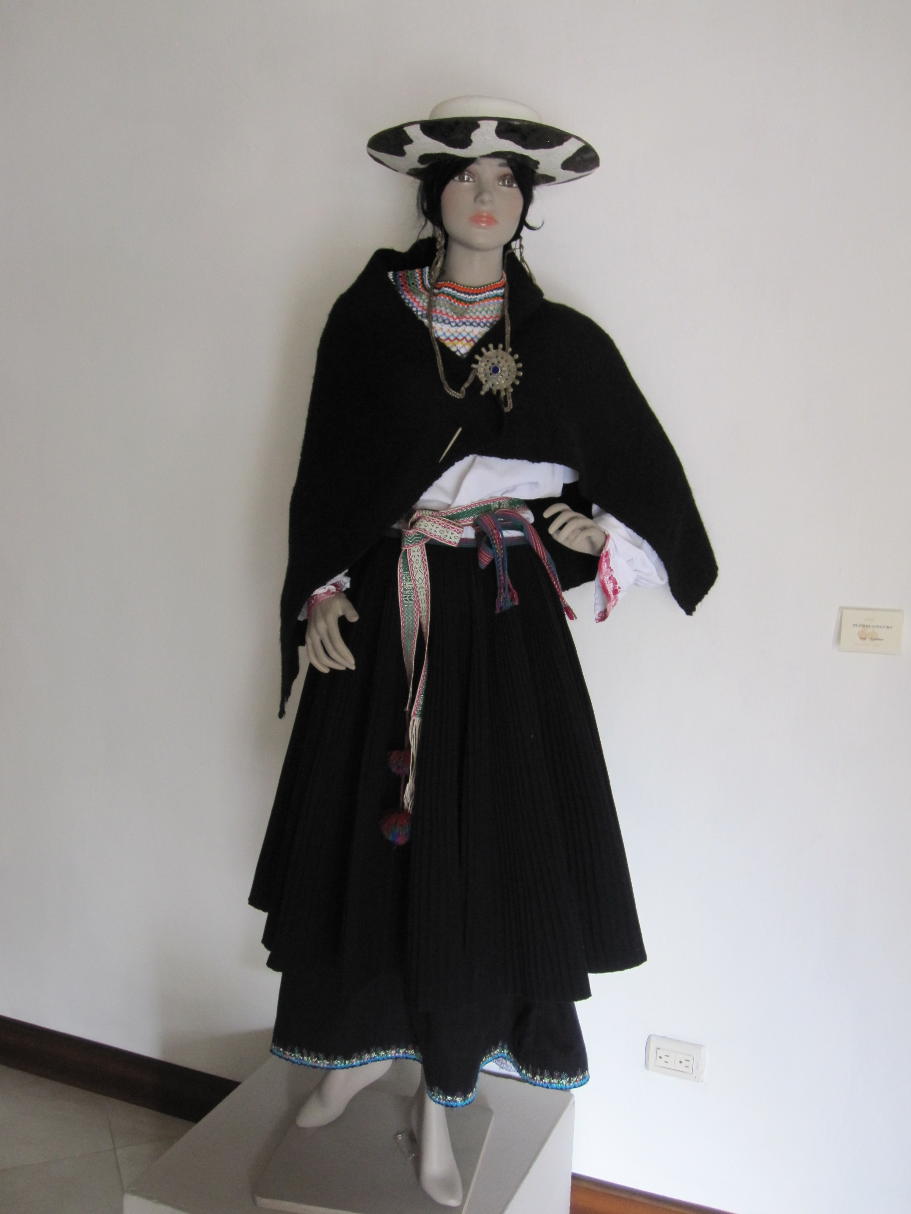 Typical dress of a Saraguro woman